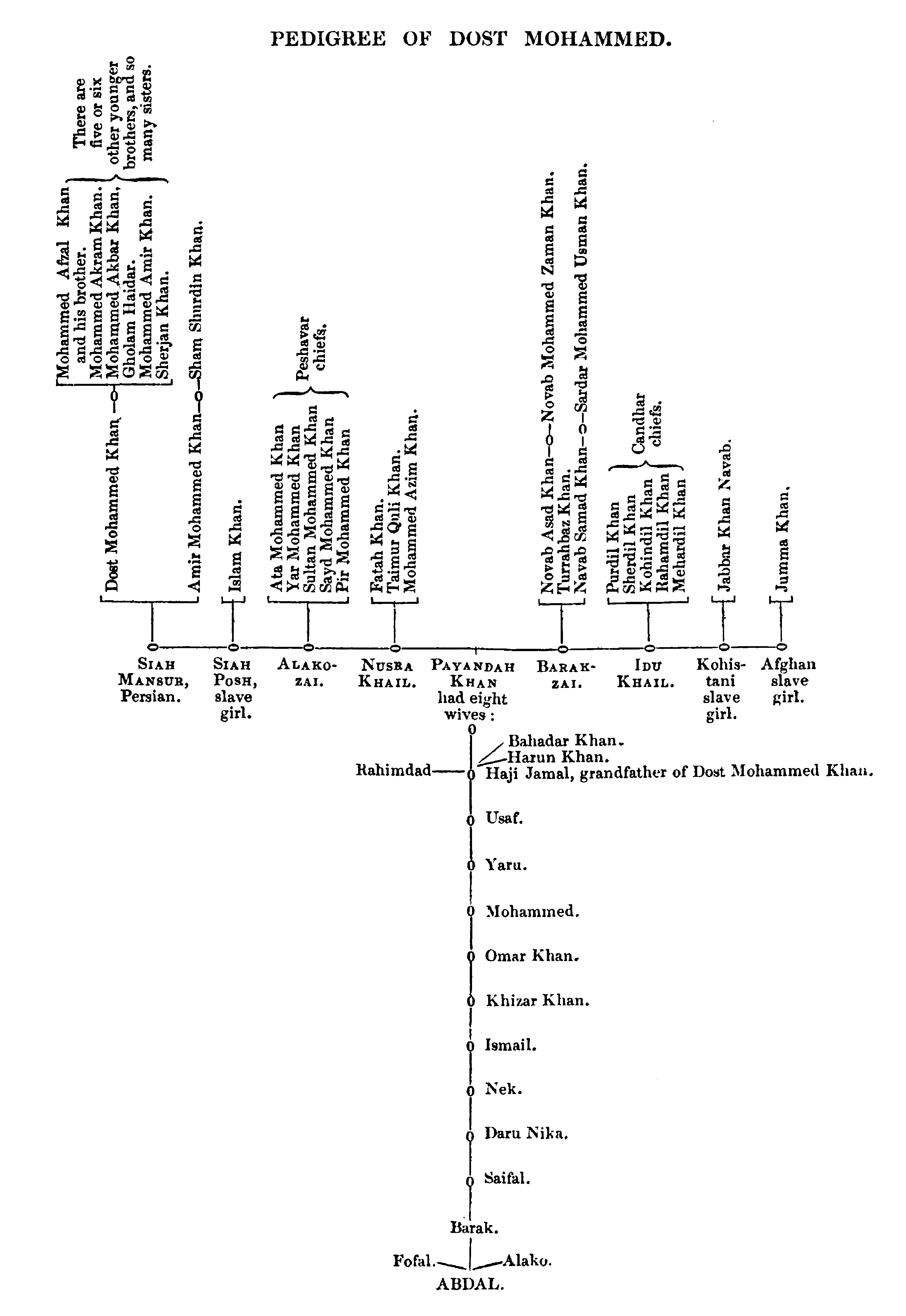 Pedigree of Dost Mohammad Khan of the Barakzai ruling dynasty in Afghanistan Dost_Mohammed_Khan